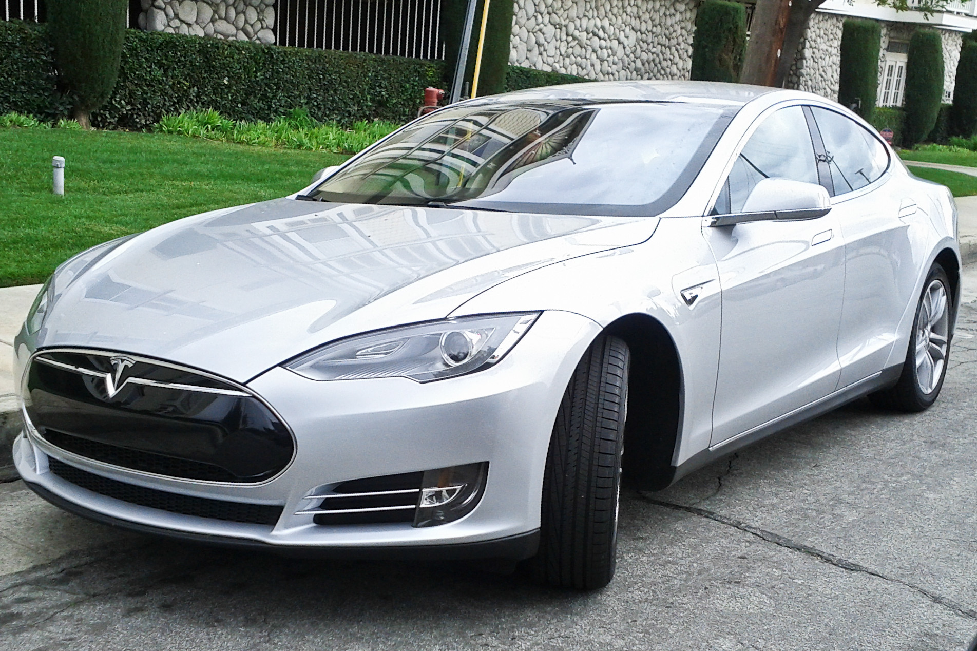 Tesla Model S electric car